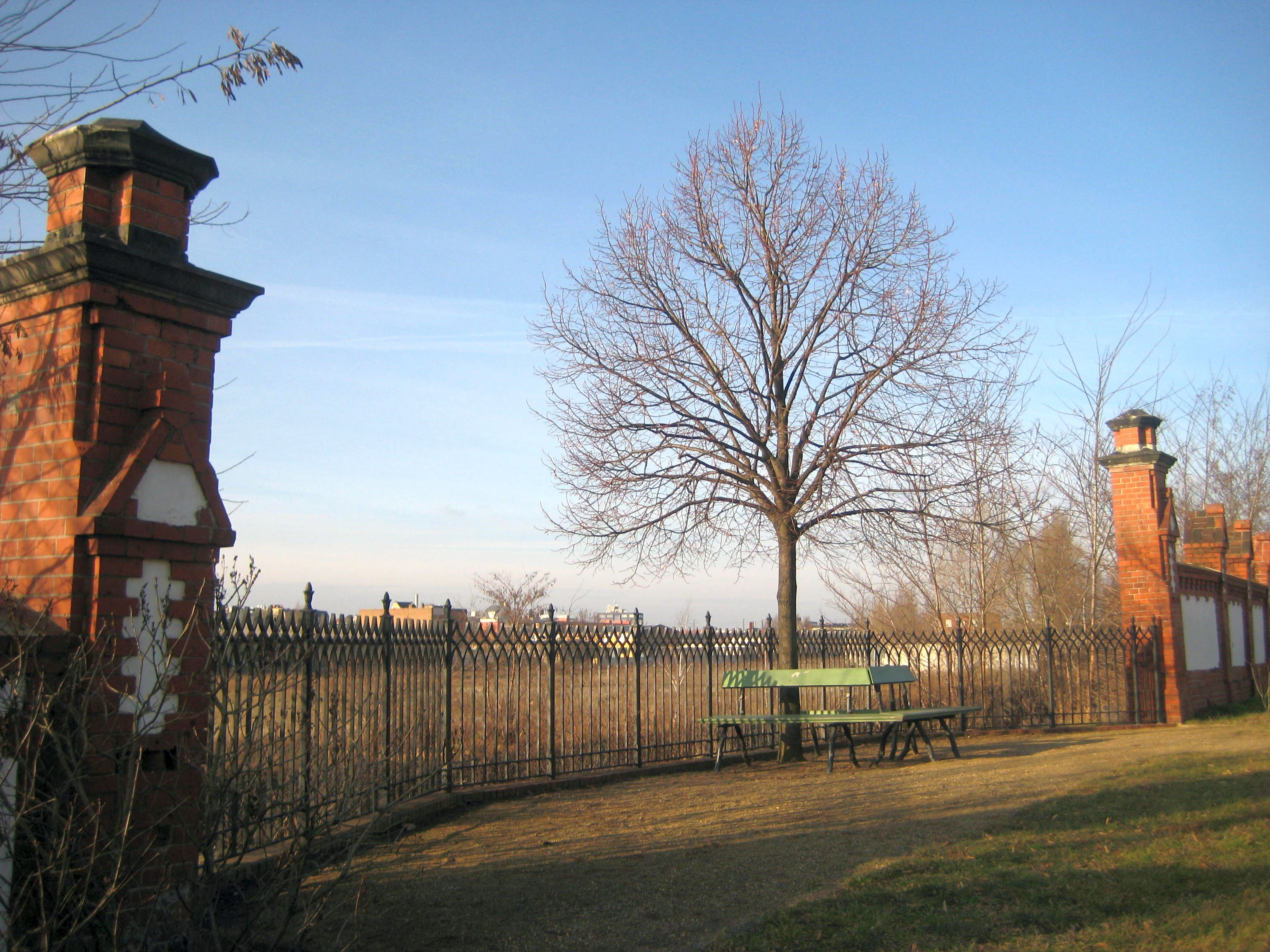 Invalidenfriedhof cemetery in Berlin, reconstructed cemetery wall with replanted “King's linden tree” (“Königslinde”)